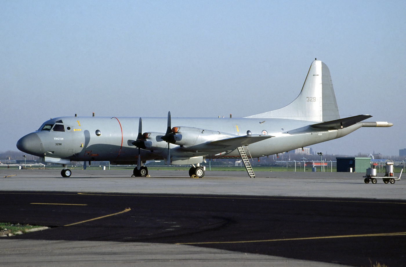 The first Norwegian P-3C (3296) to visit Valkenburg. While the old P-3Ns (former P-3Bs) were quite common and flew to many airshows, the P-3C stayed at home. Valkenburg, December 1991.